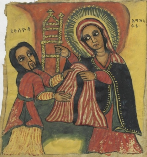 Apparition of Blessed Virgin Mary : saint Ildefonsus